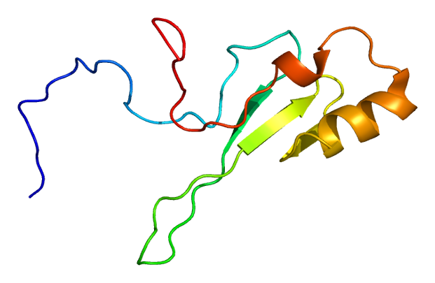 Structure of the MECP2 protein. Based on PyMOL rendering of PDB 1qk9.